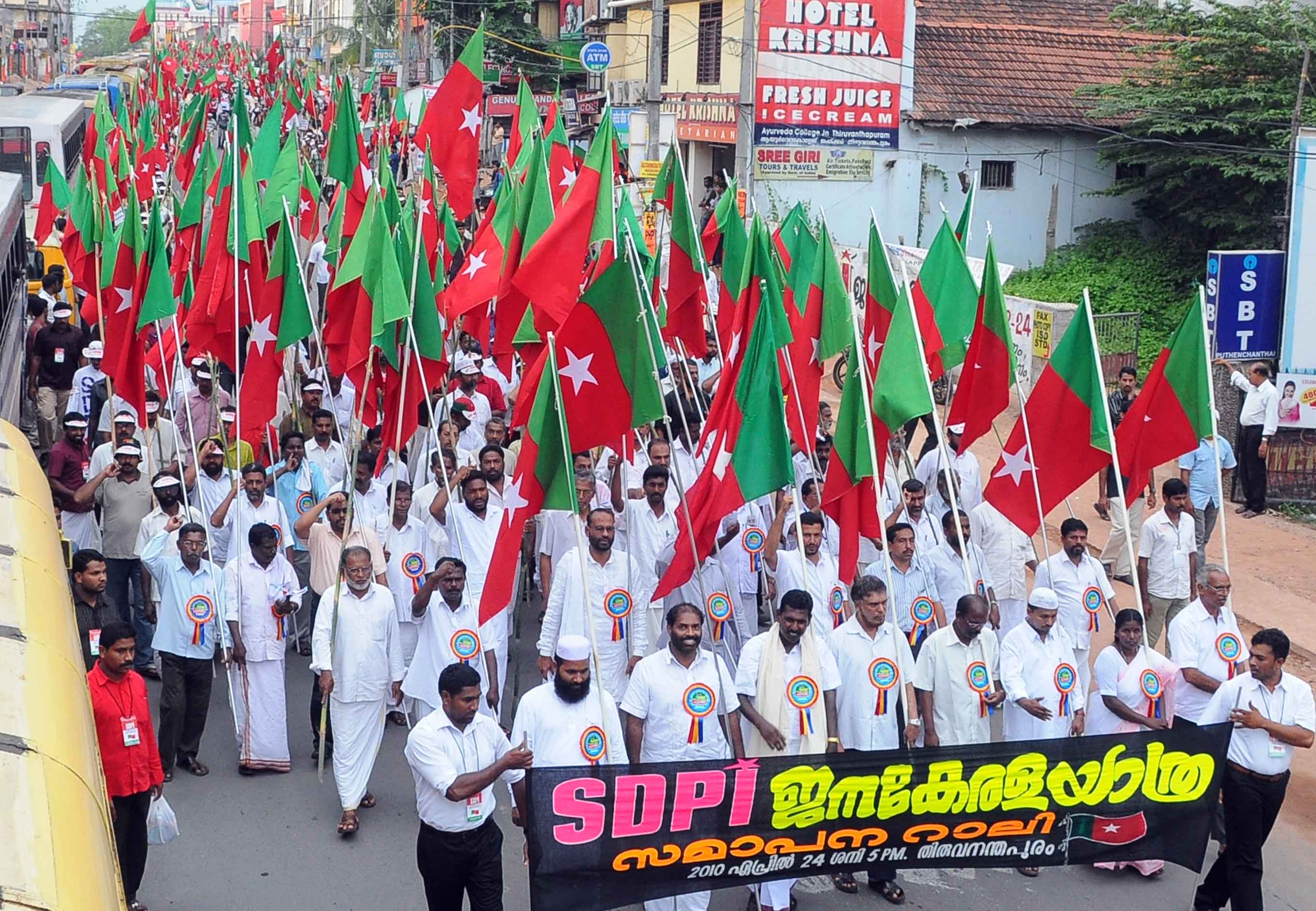 SDPI Jana kerala Yathra